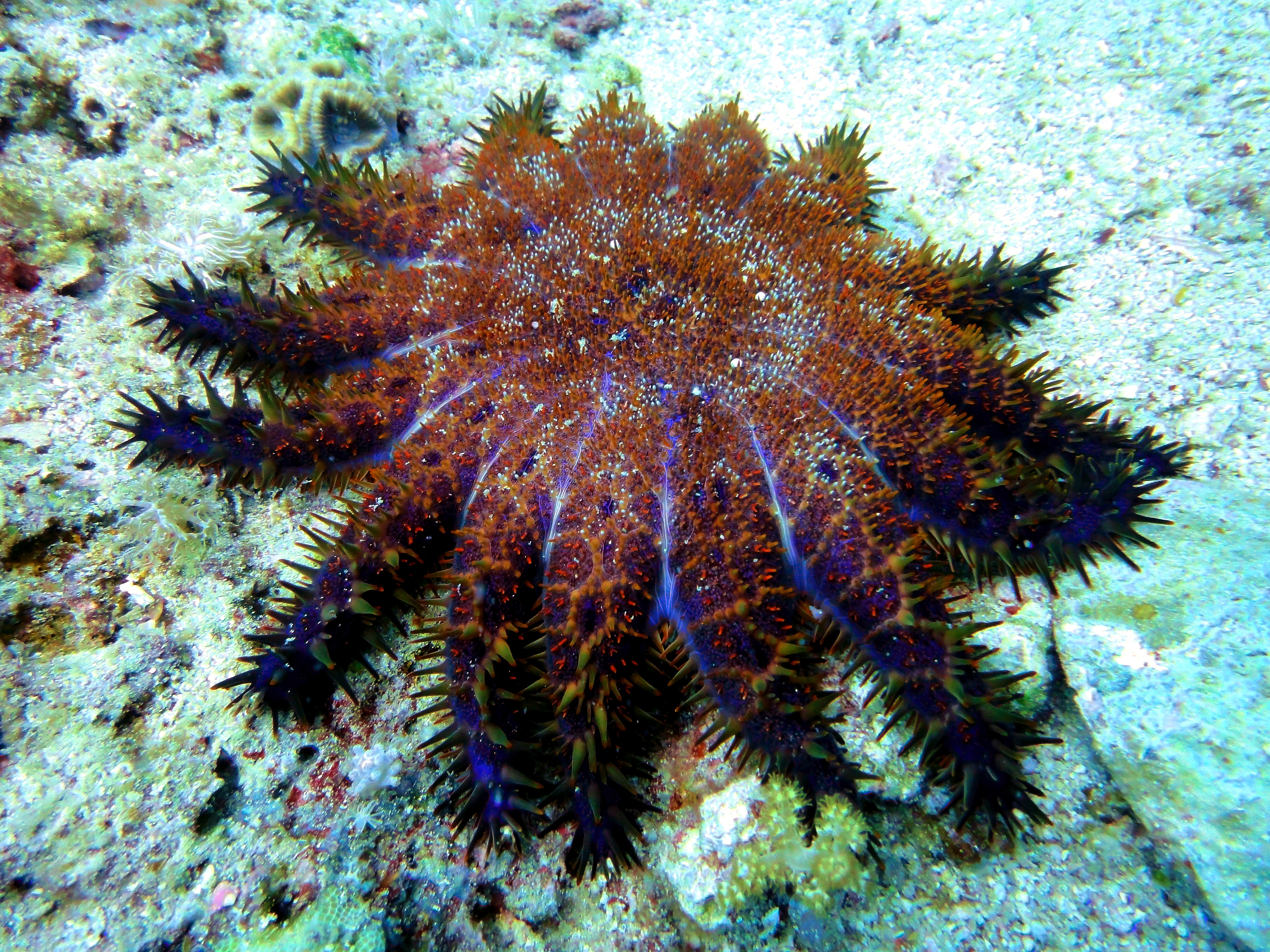 A rare short-spined Crown of Thorns Starfish (Acanthaster brevispinus) at Malapascuas Island, Philippines.